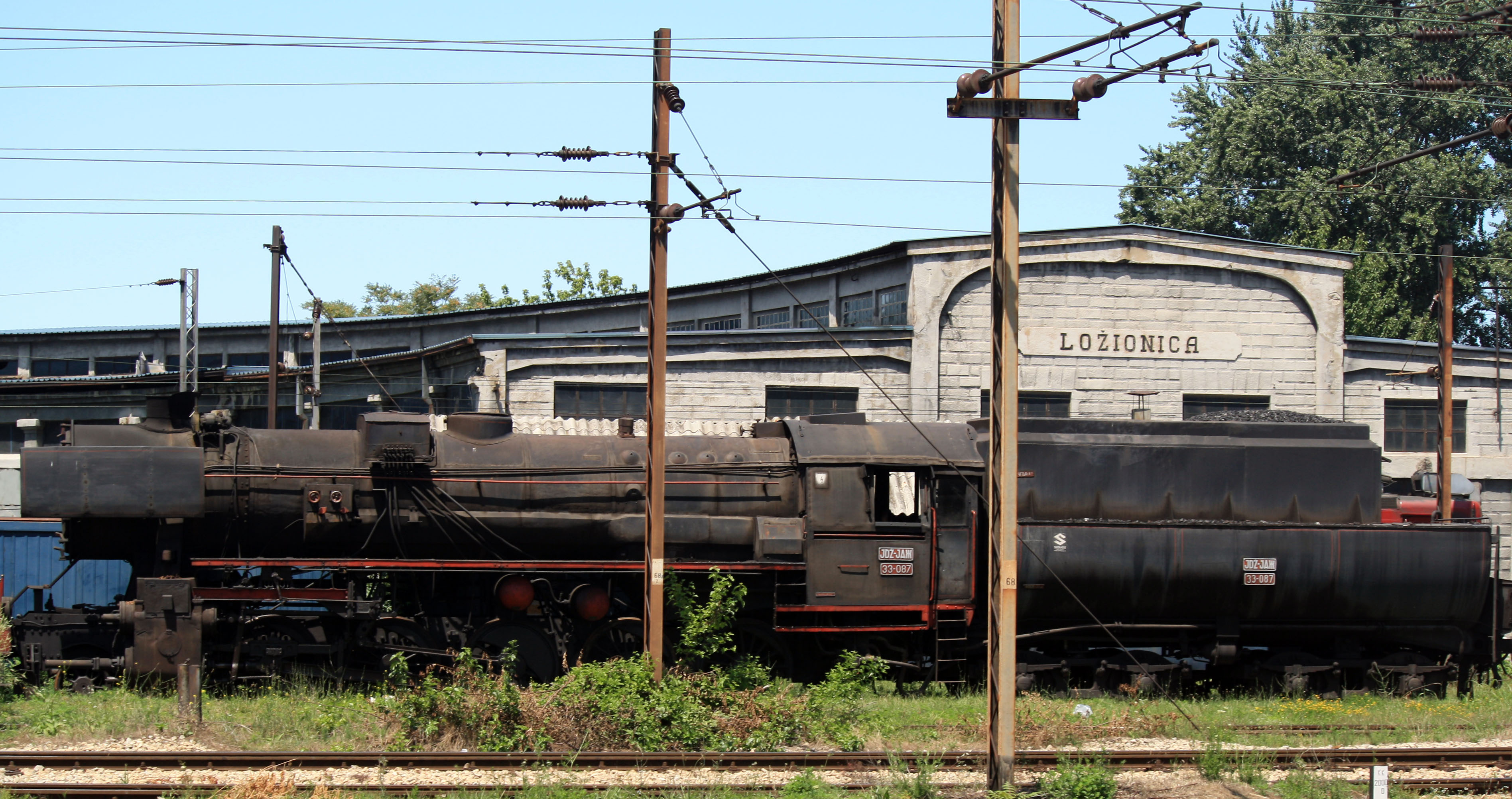 Old JDŽ Class 33 steam locomotive of Serbian Railways near the old shed at Belgrade depot.